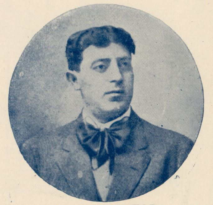 This is a portrait of Reuben Doctor, Yiddish-language actor and songwriter who lived around 1880-1940. This photo appeared on a number of published scores which are now in the public domain.